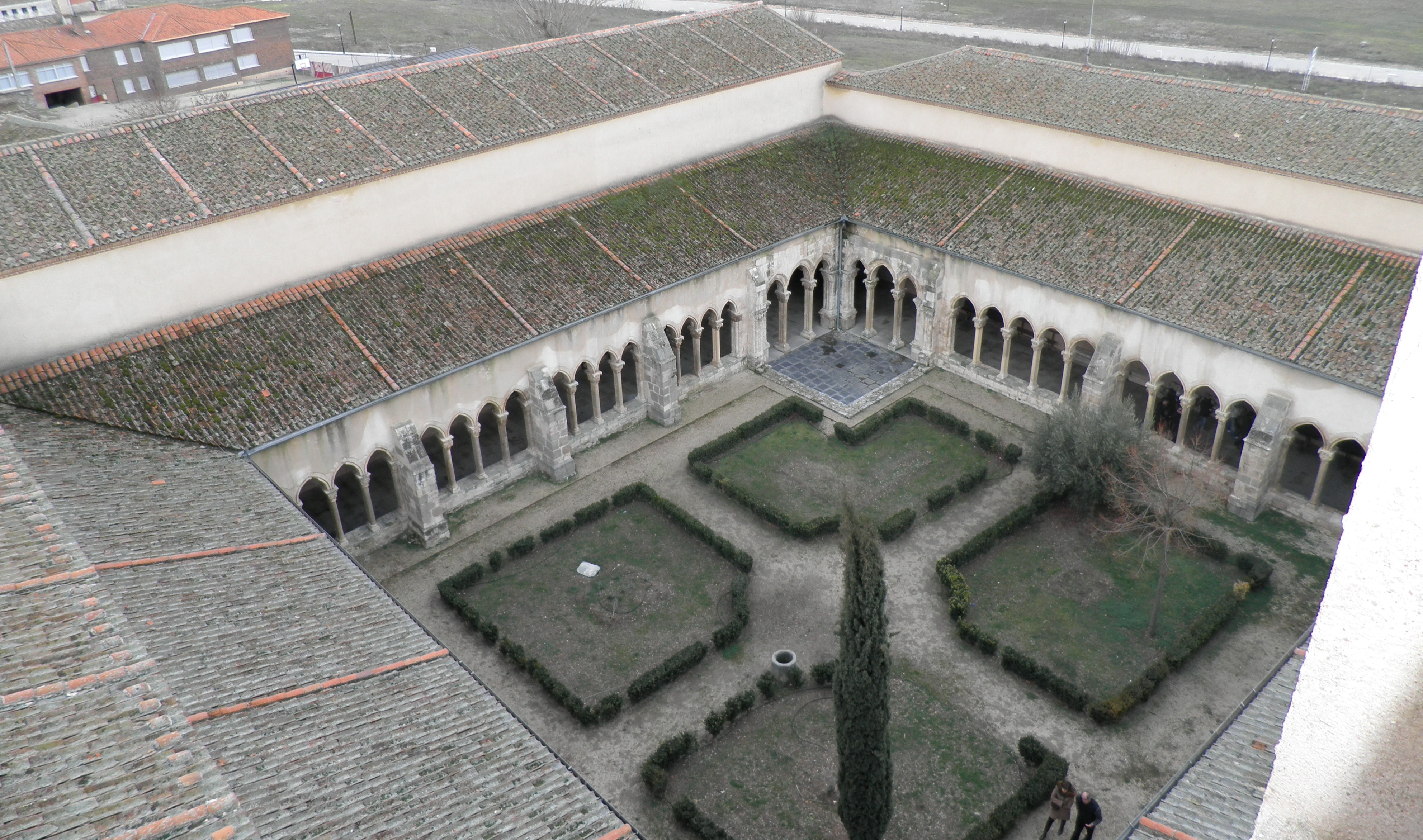 View of the cloister from the tower of church of Santa Maria la Real de Nieva, Santa María la Real de Nieva, Segovia province, Spain.